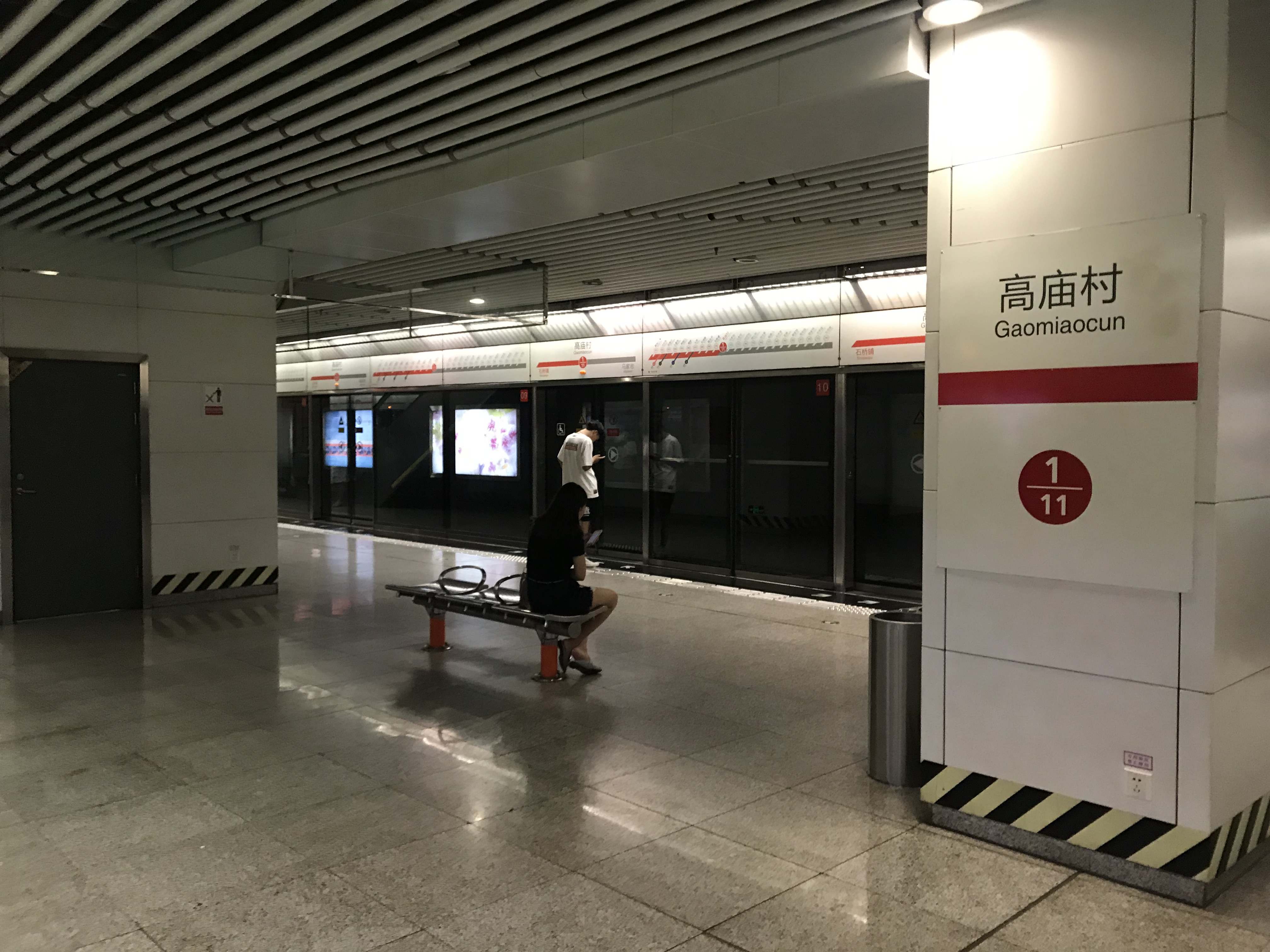 201908 Gaomiaocun Station Platform